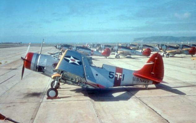 A U.S. Navy Douglas TBD-1 Devastator of Torpedo Squadron 5 at Naval Air Station North Island. Northrop BT-1s of Bombing Squadron 5 are visible in the background. Both squadrons were assigned to the aircraft carrier USS Yorktown (CV-5), which was transferred to the Pacific Fleet in April 1939.